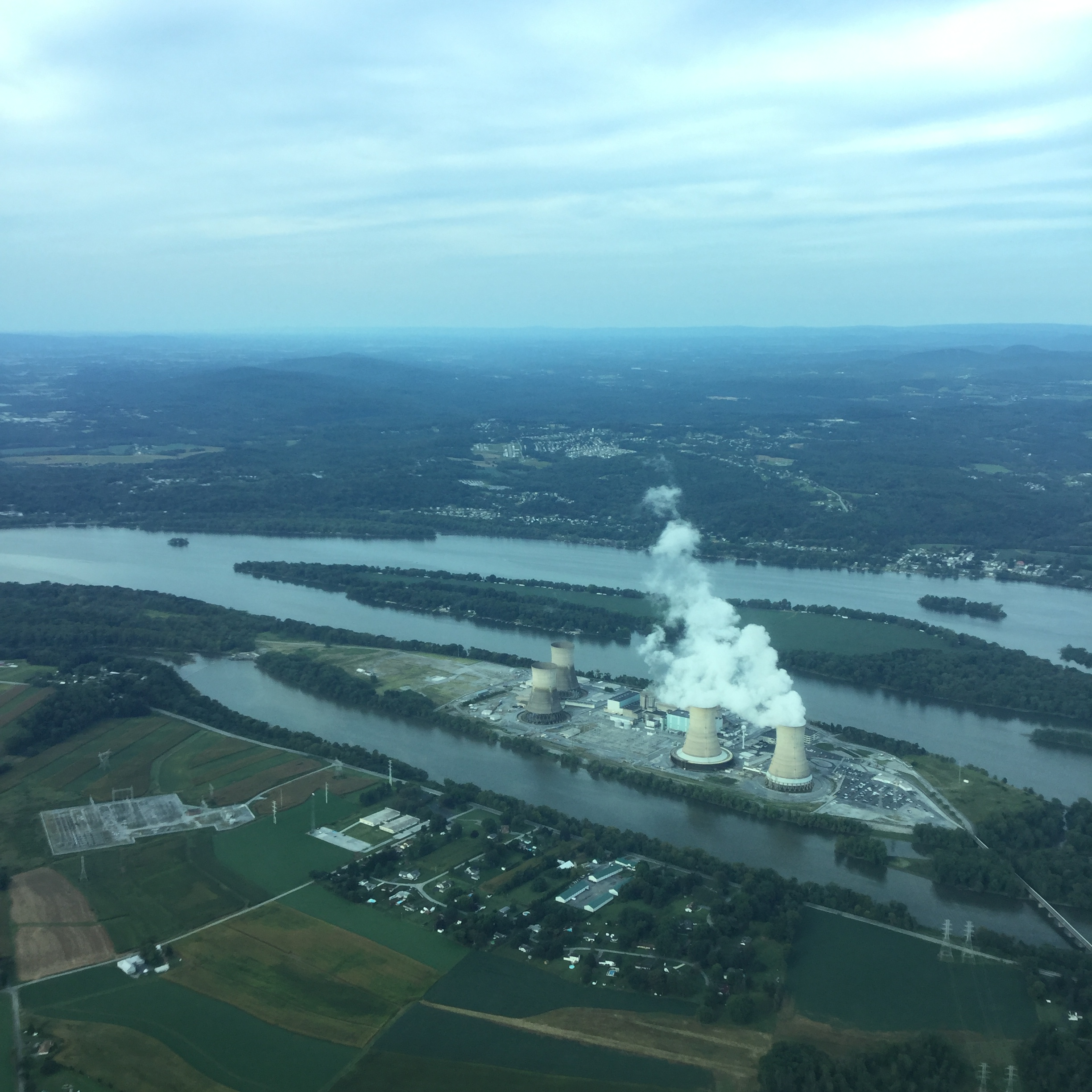 Three Mile Island, including the training center and access road